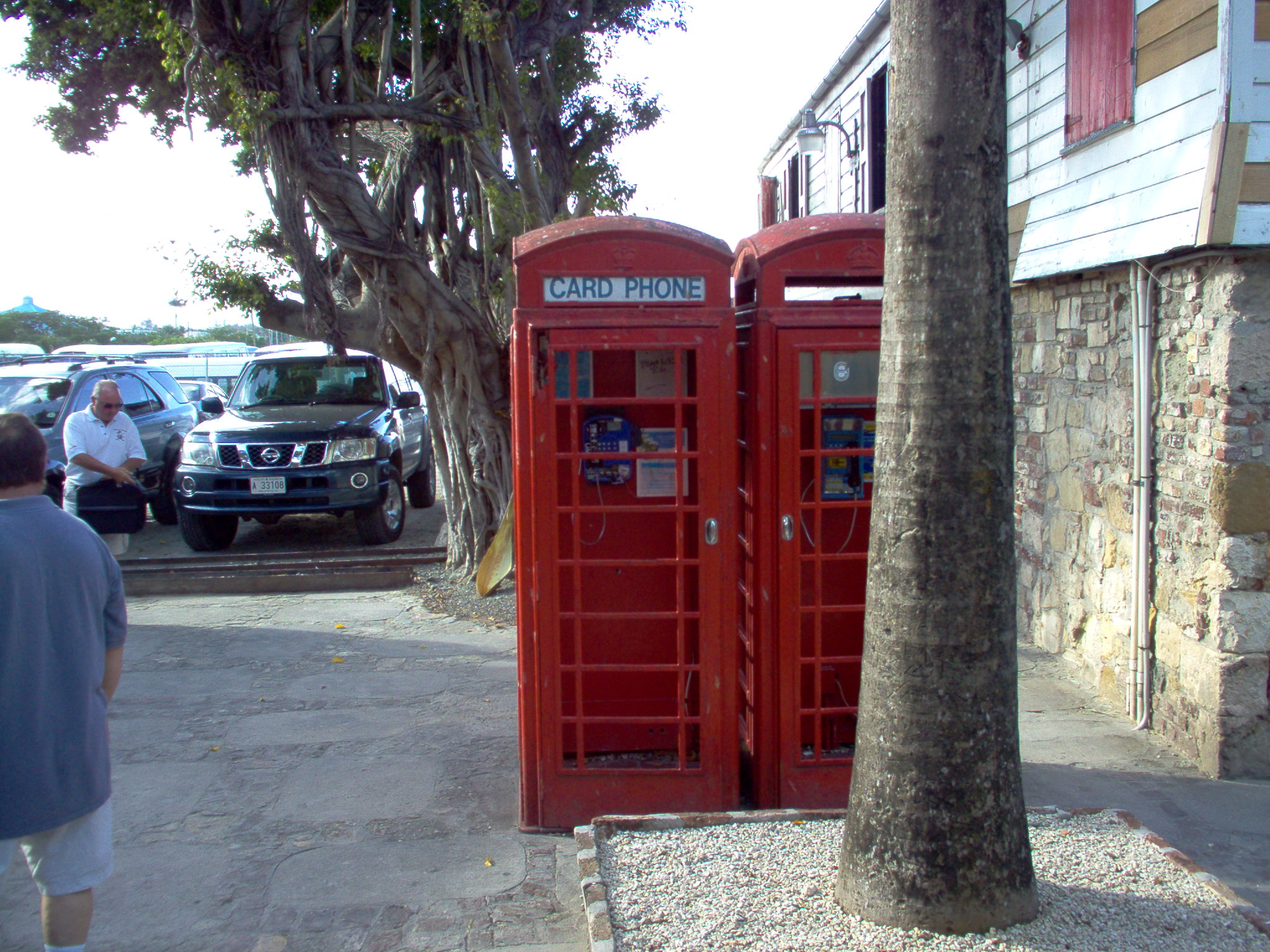 Two red telephone boxes standing next to each other in St. John's, Antigua and Barbuda